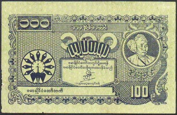 Obverse of 1945 Burma 100 kyat note featuring Ba Maw